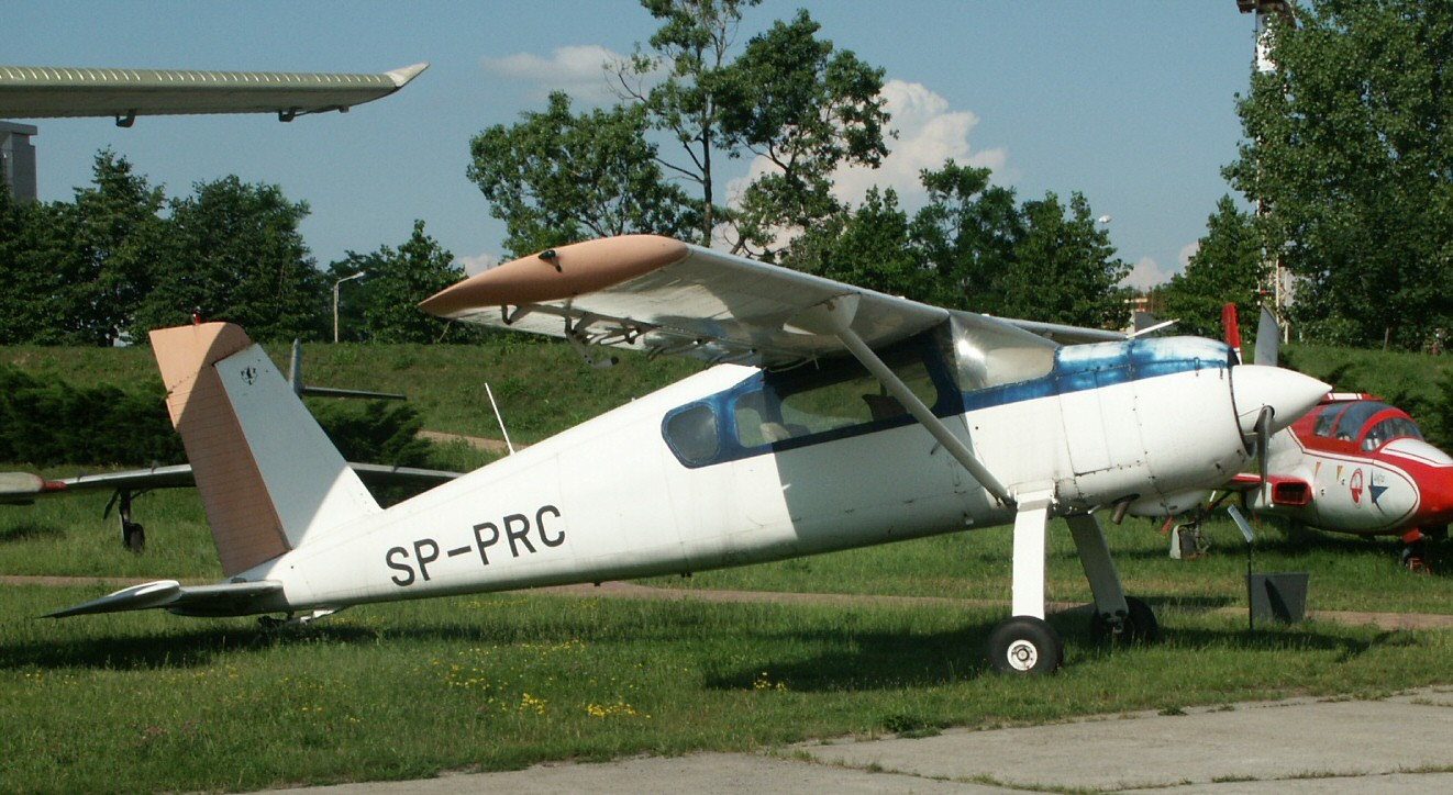 PZL-105 Flaming - Polish utility aircraft prototype at the Polish Aviation Museum in Kraków